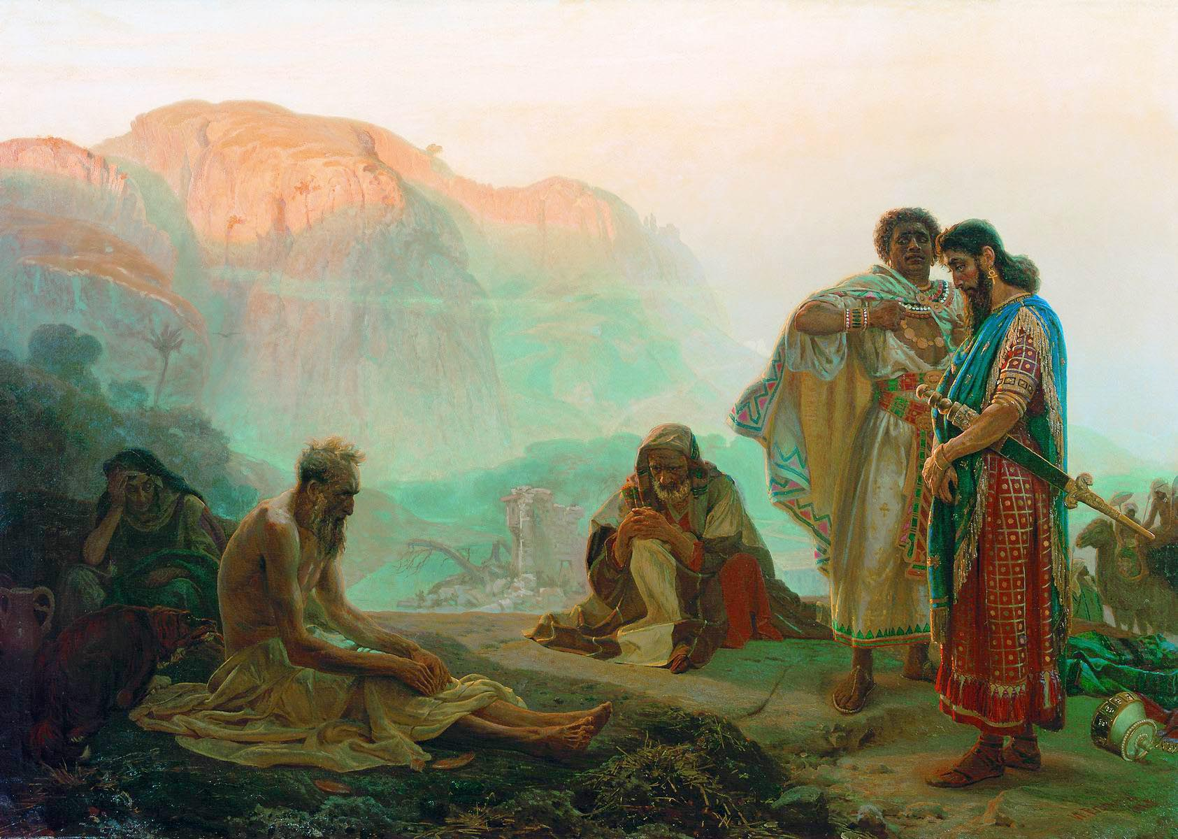 Job and His Friendslabel QS:Len,"Job and His Friends"label QS:Les,"Job y sus amigos"label QS:Lru,"Иов и его друзья"